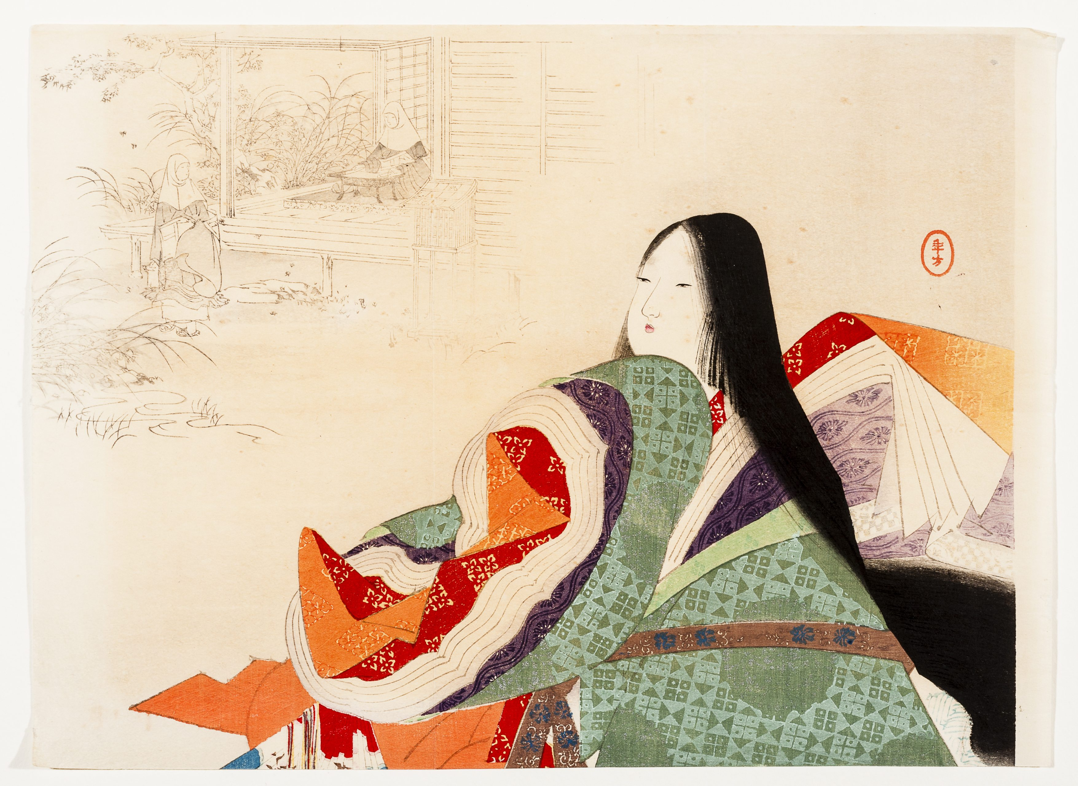 Taira no Tokuko, frontispiece illustration from the literary magazine Bungei kurabu, vol. 7, no. 13. Woodblock print with color blocks